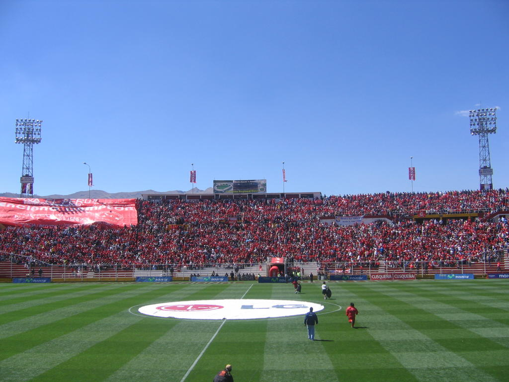 "Estadio Inca Garcilaso De la vega" with the "Furia Roja"